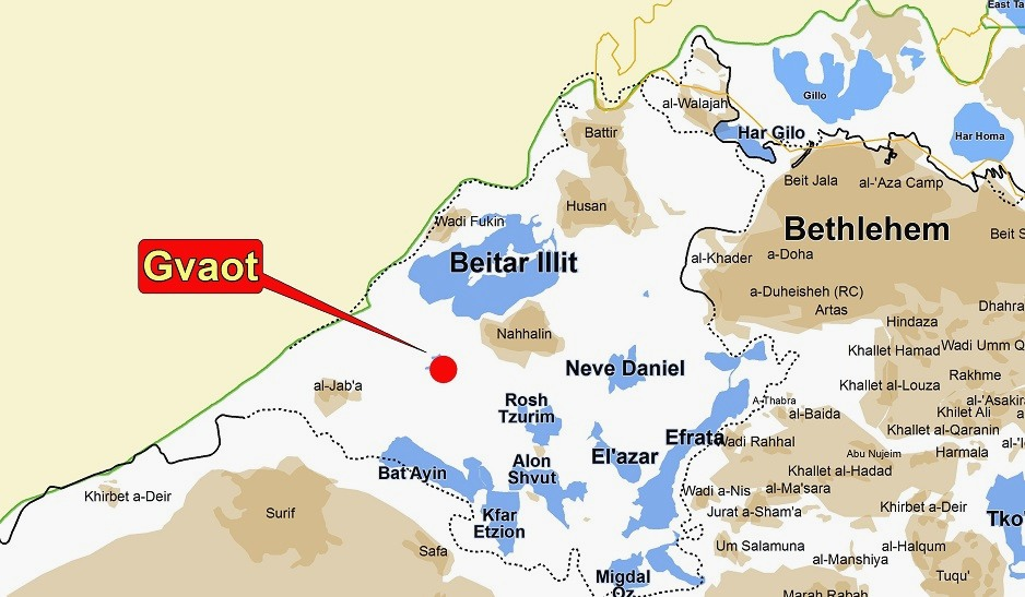 map for the planed modern megacity Gva'ot